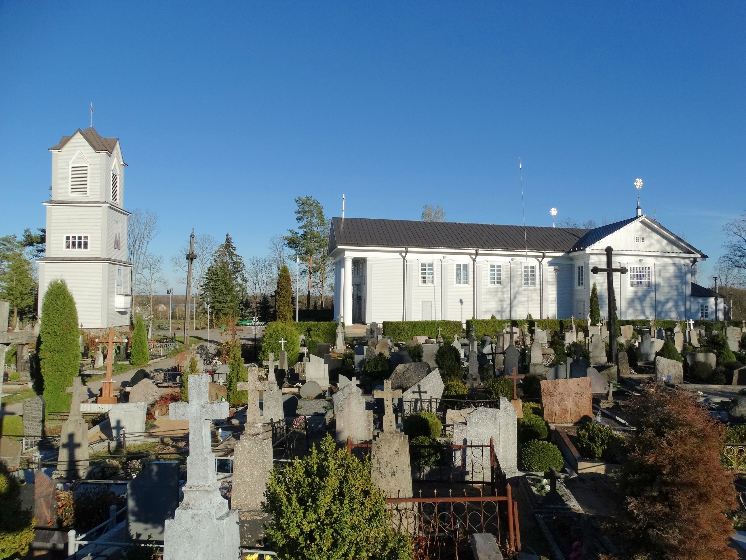 Roman Catholic Church in Pivašiūnai, Alytus district, Lithuania